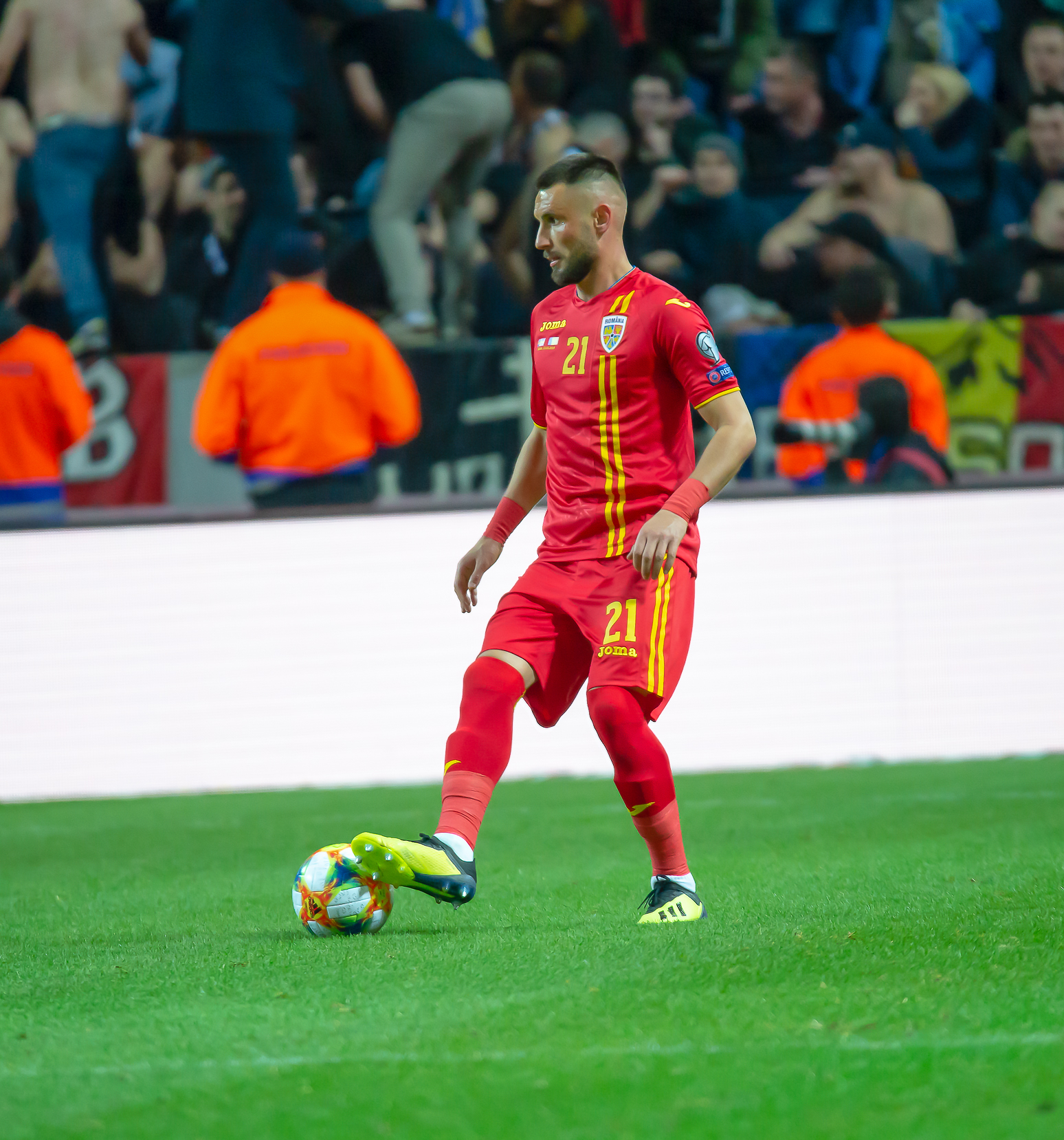 UEFA EURO qualifiers Sweden vs Romaina 20190323